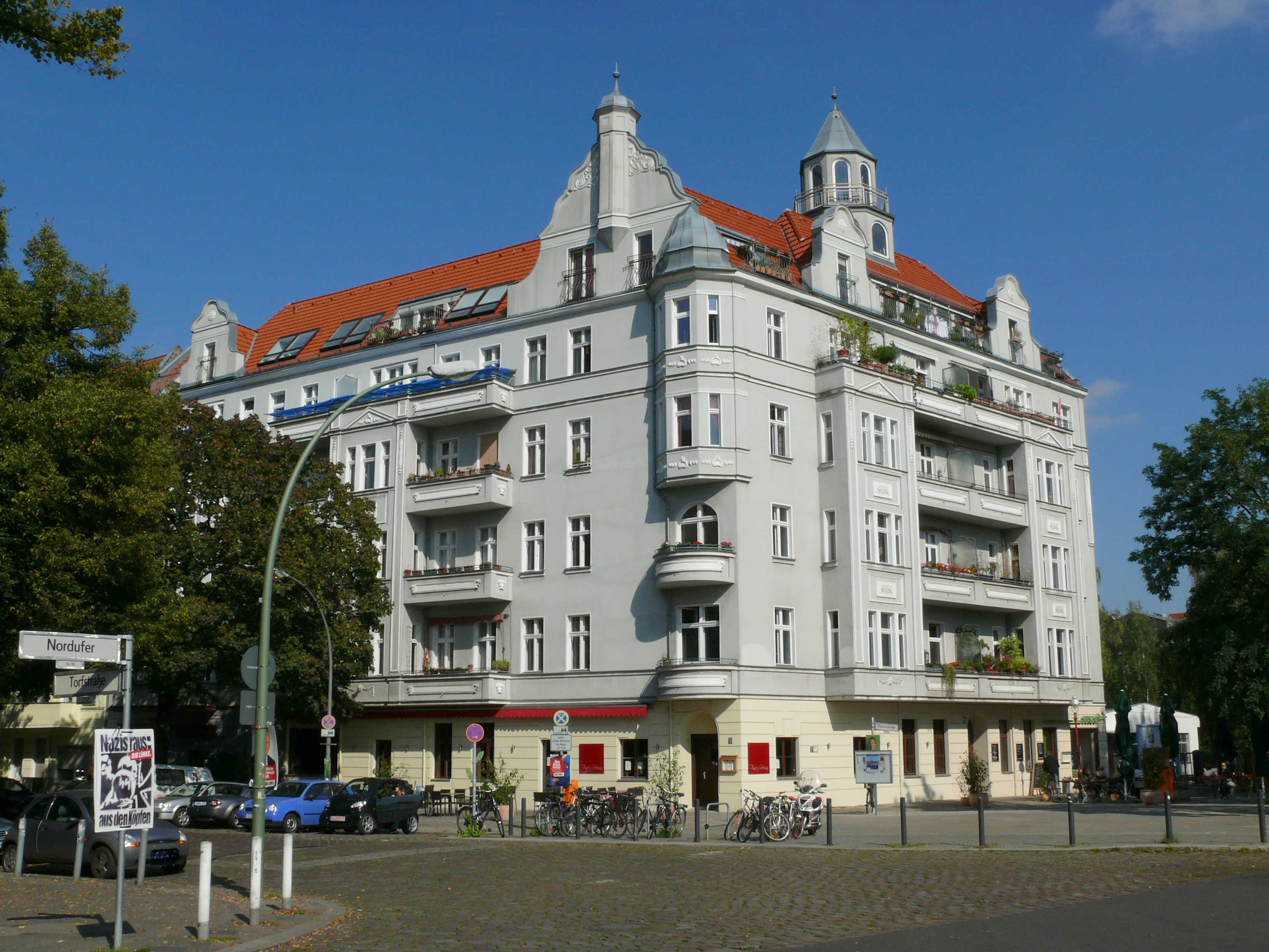 Berlin-Wedding Nordufer